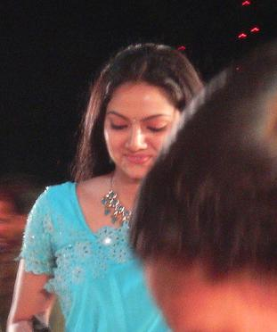 Actress Samvrutha Sunil